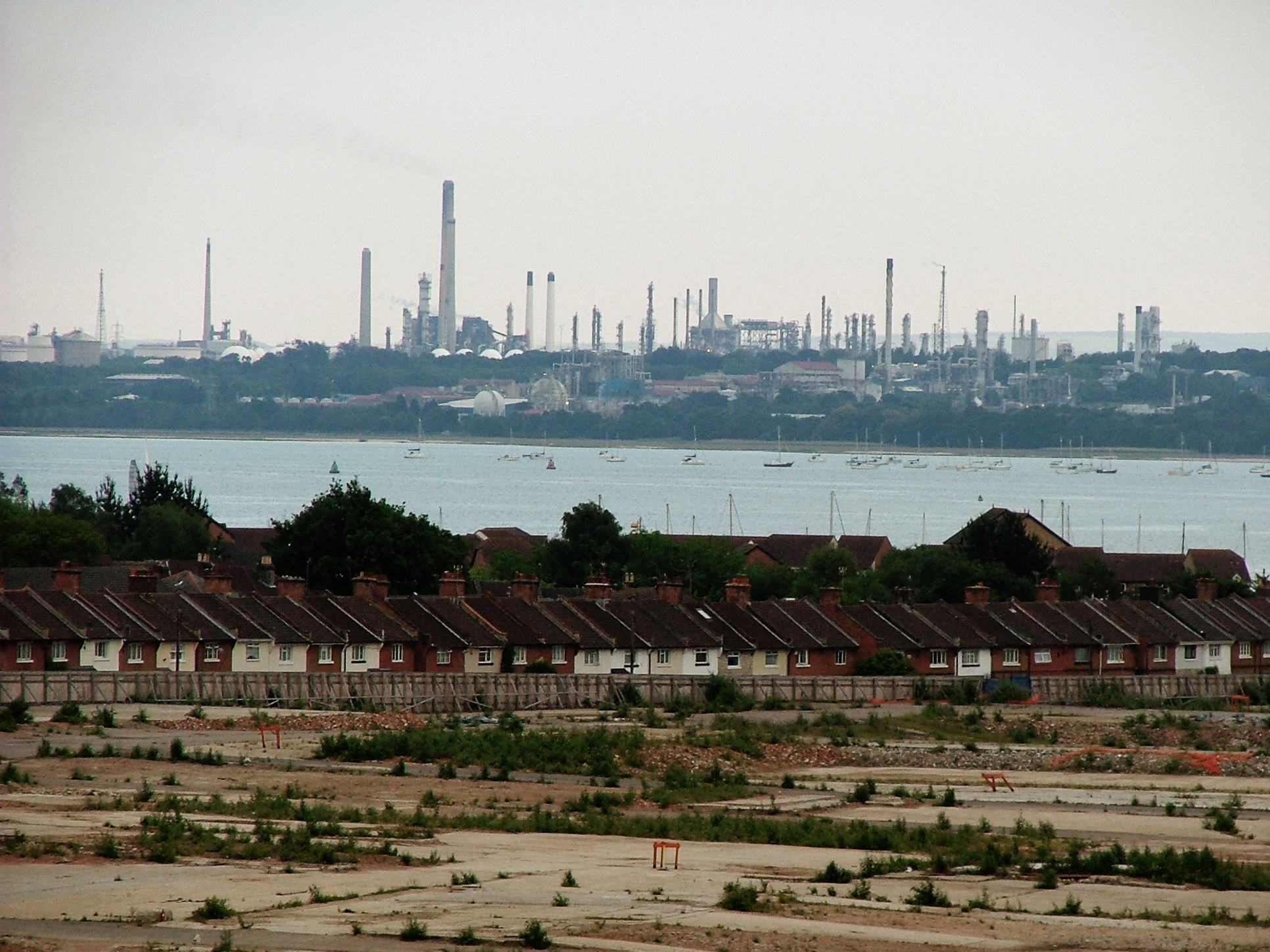 View over Southampton Water to Fawley, with the former Woolston shipyard in the foreground